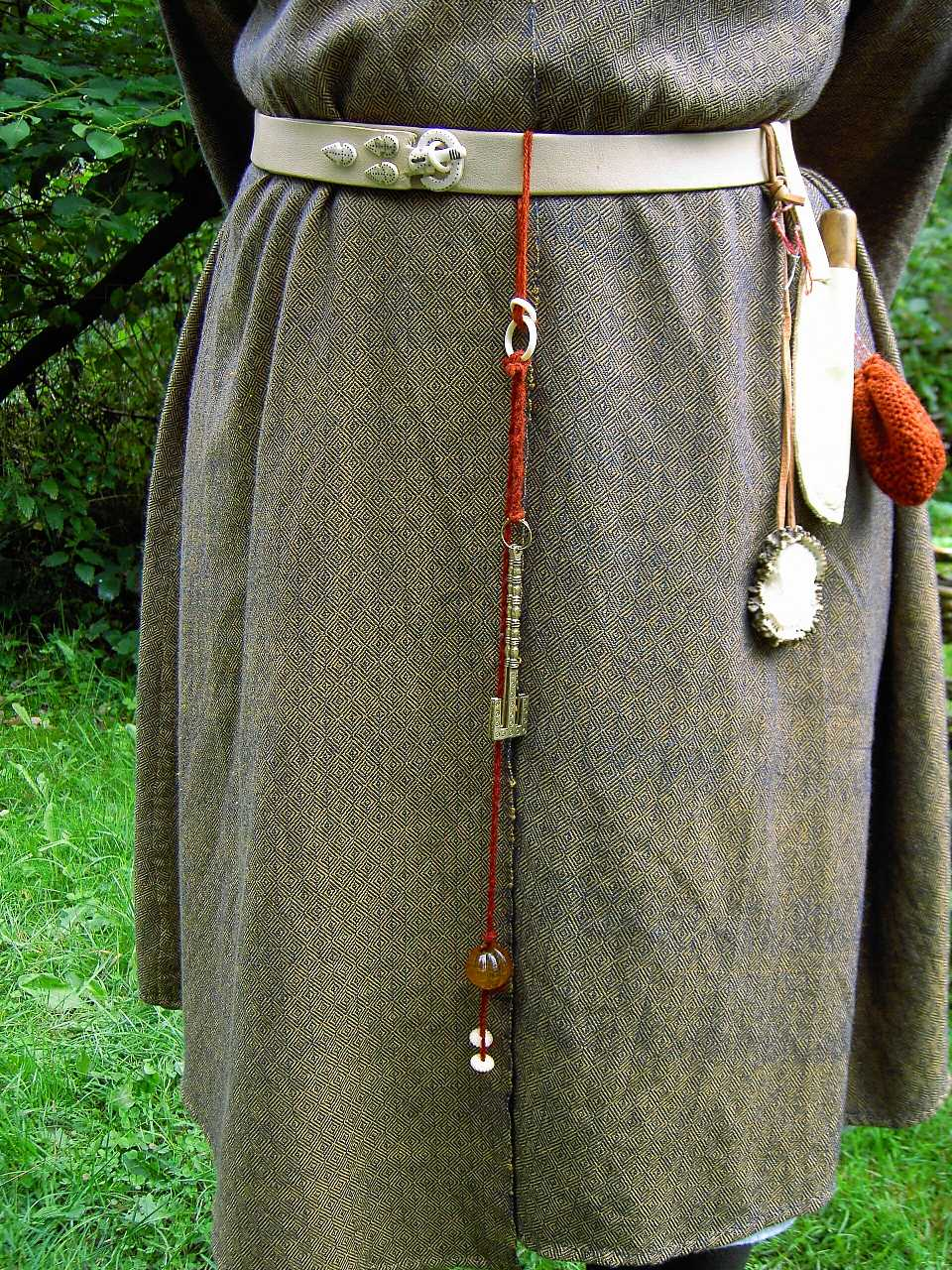 Reconstruction of belt attachments, Thuringia around 530 AD